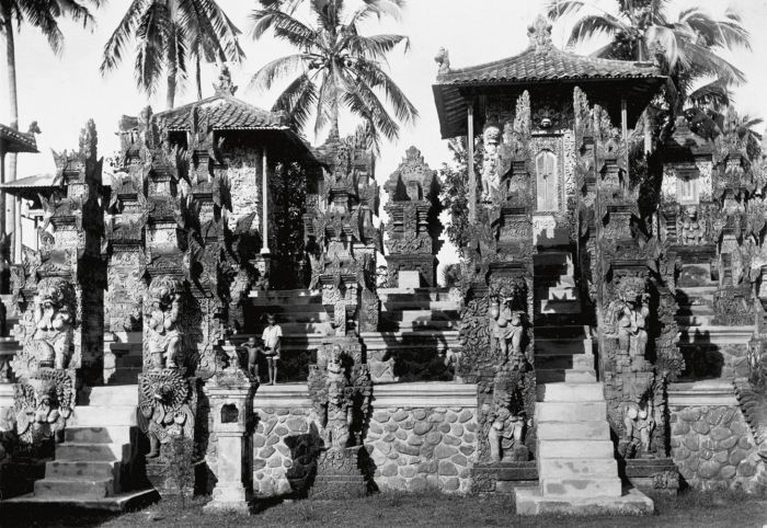 The Pura Dalem